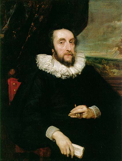 Thomas Howard, 2nd Earl of Arundel